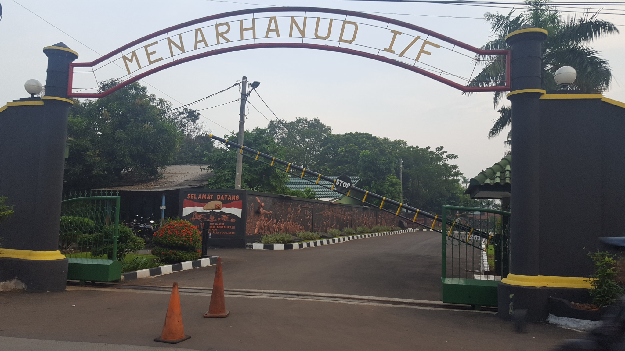 Entrance gate of the 1st Air Defense Artillery Regiment (Falatehan), Kodam Jaya, Jakarta, Indonesian Army (TNI AD)